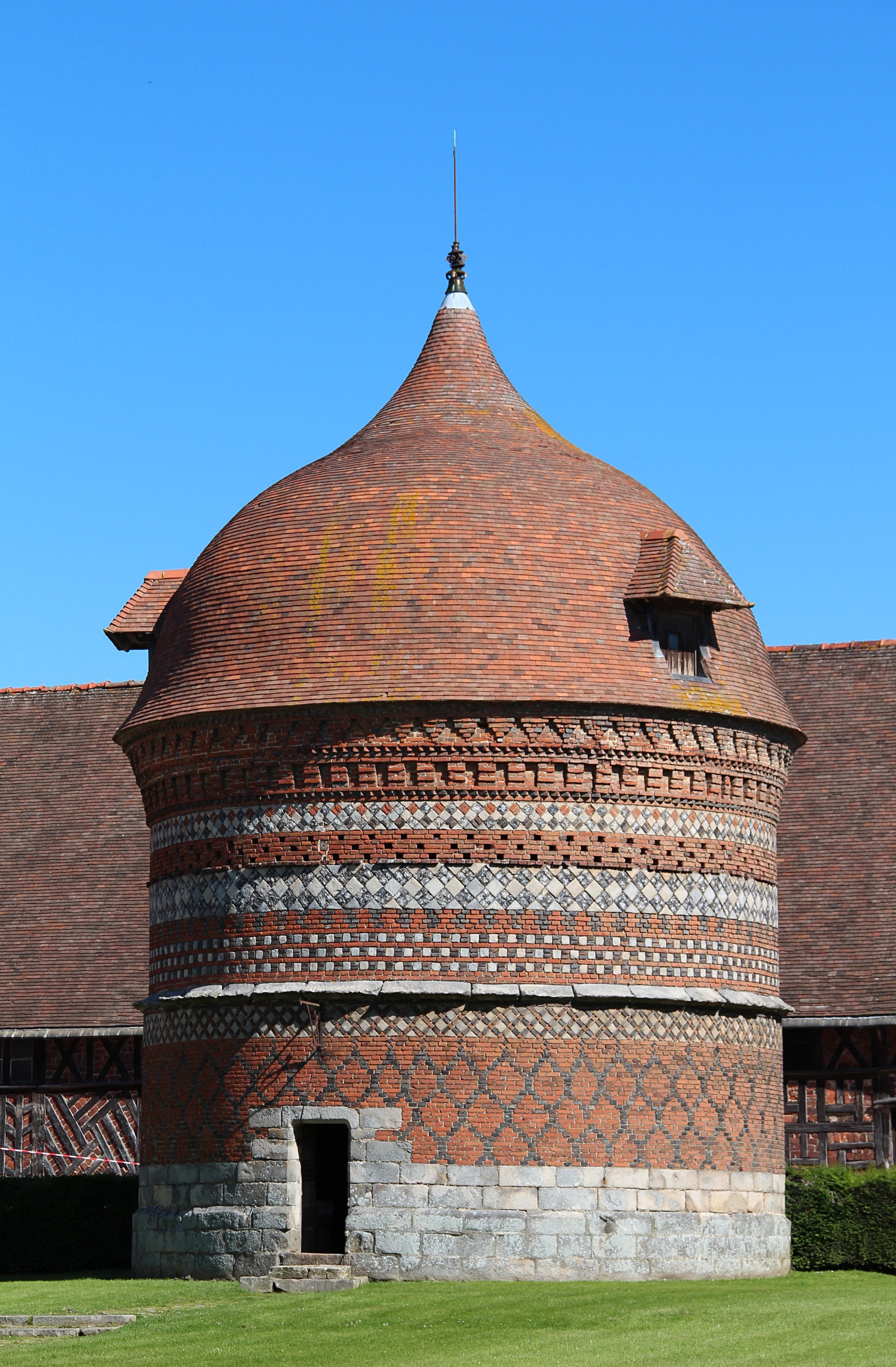 Varengeville-sur-Mer (Seine-Maritime - France), dovecote of the manor of Ango (1532).